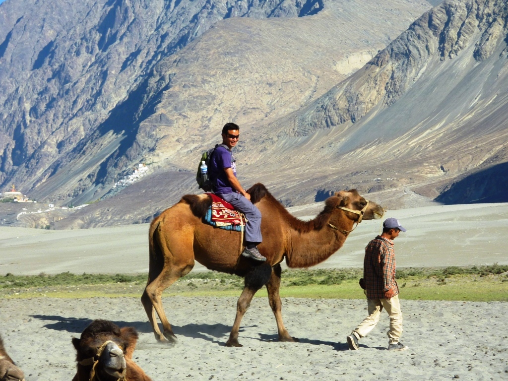 This photo was taken by myself of a Tibetan friend riding a Bactrian camel in the Nubra Valley, Ladakh in 2010